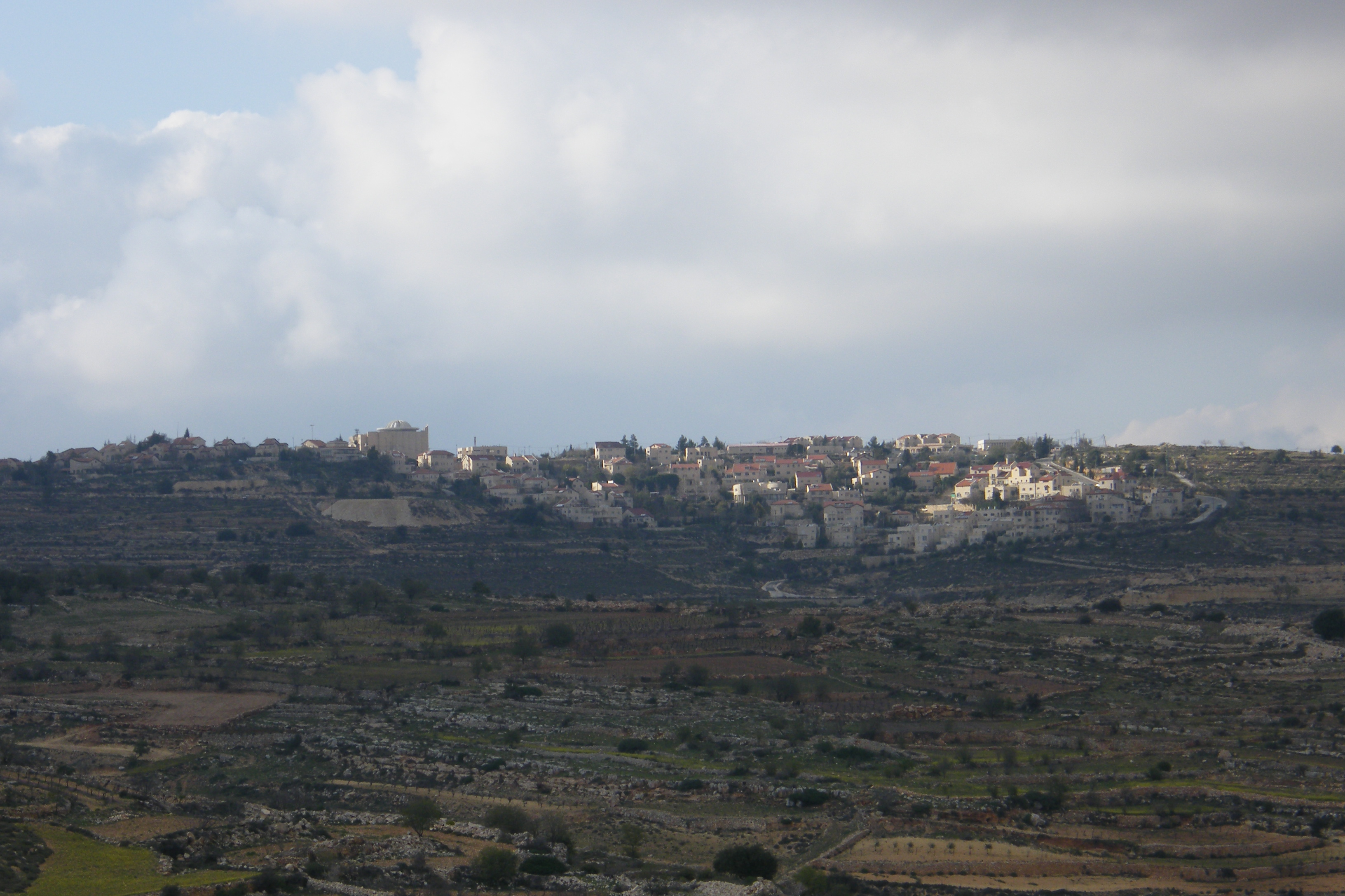 Neve Daniel